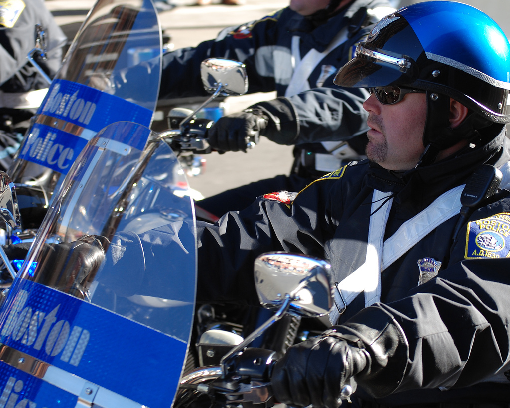 Boston Police Special Operations Unit at the Veteran's Day Parade in Boston on November 11, 2007.